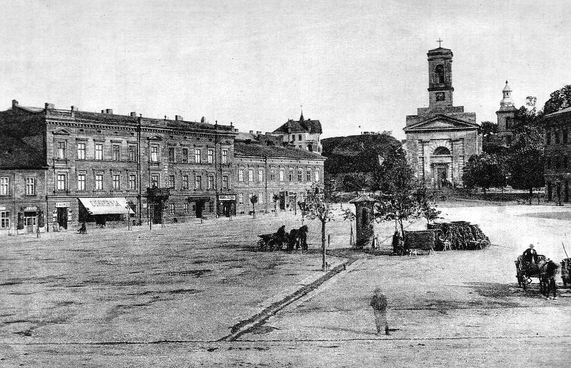 Market Square in Podgórze near Krakow (Cracow), Poland, end of 19th century